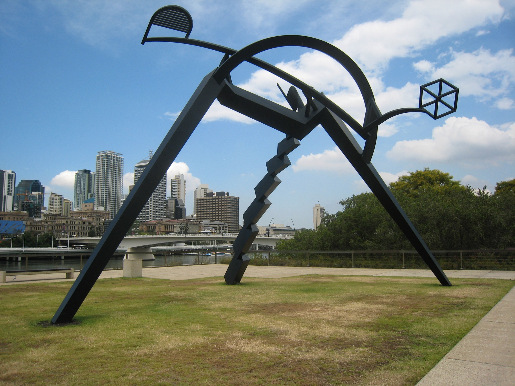 Sculpture Approaching Equilibrium by Anthony Pryor at Southbank, Brisbane/Australia